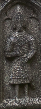 Cropped version of File:Roscommon St. Mary's Priory Choir Tomb 2014 08 28.jpg. The image shows the sculpted figure of a gallowglass.